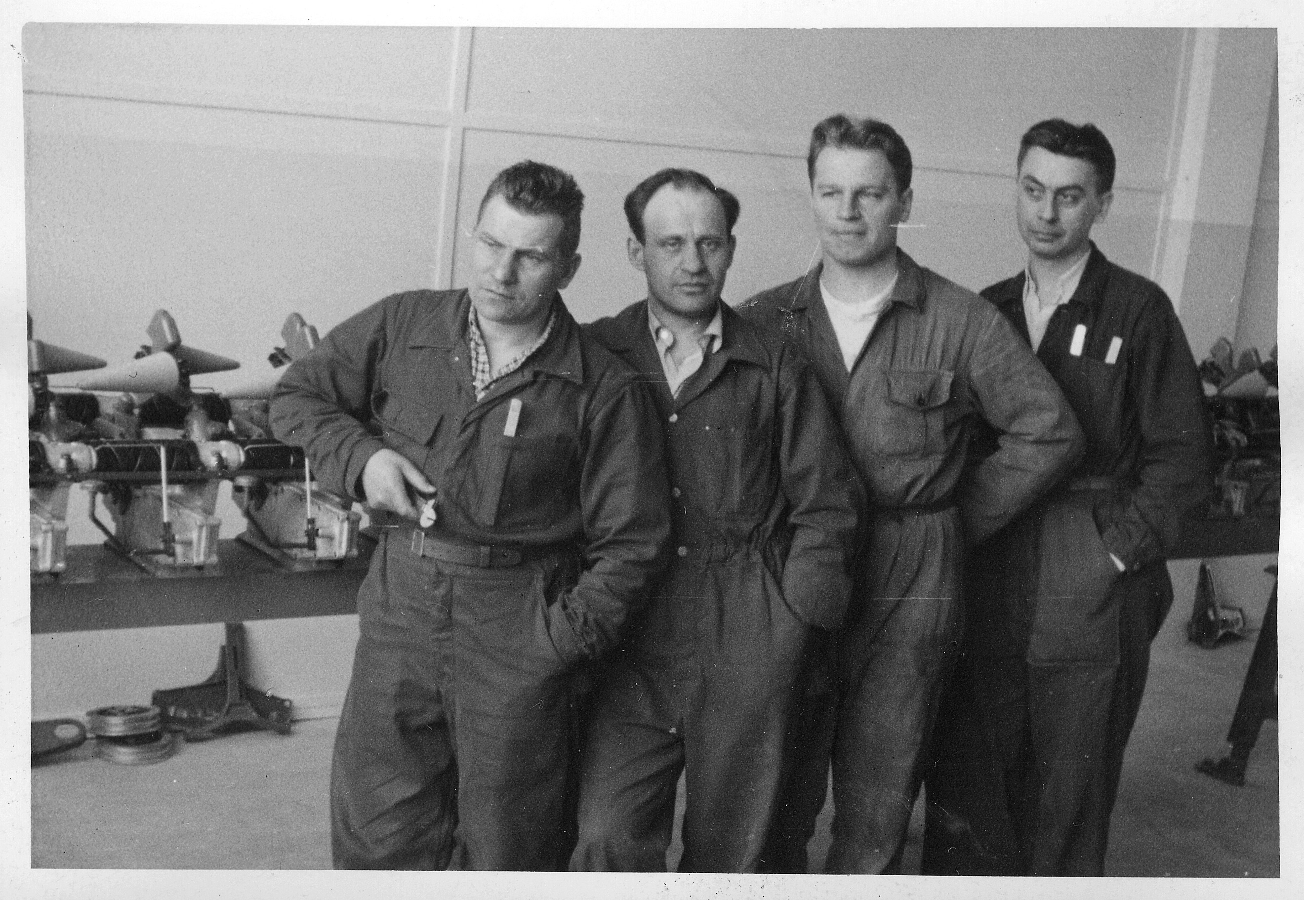 Väinö Linna (second from left) with his fellow workers.